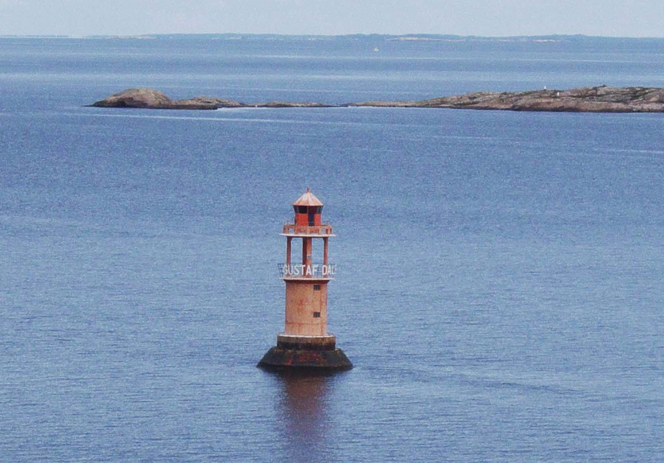 Gustaf Dalén, lighthouse in the Archipelago Sea.